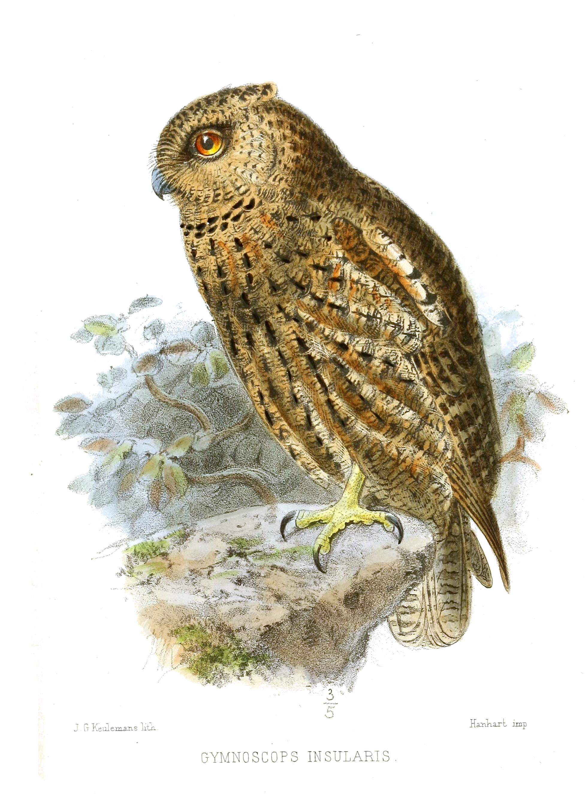 « Gymnoscops insularis » = Otus insularis (Seychelles Scops Owl)